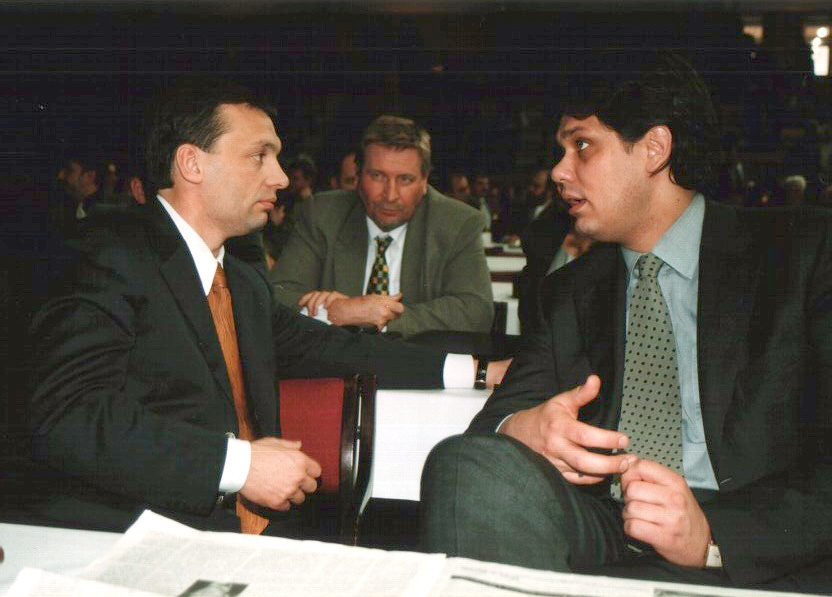 Viktor Orbán and Tamás Deutsch Hungarian politicians, 2000. My own picture. Created by Rita Molnár. 2000